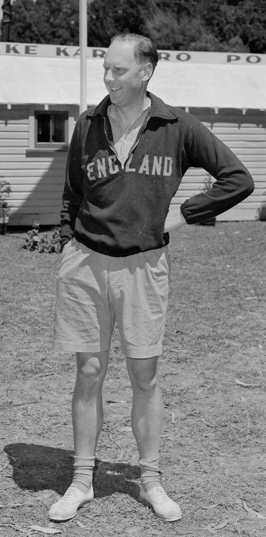 British oarsmen at the 1950 British Empire Games, coach of England's rowers J D Beresford (left) and competitor R D Burneil, standing outside the Lake Karapiro post office. Photograph taken circa 31 January 1950 by an Evening Post photographer.